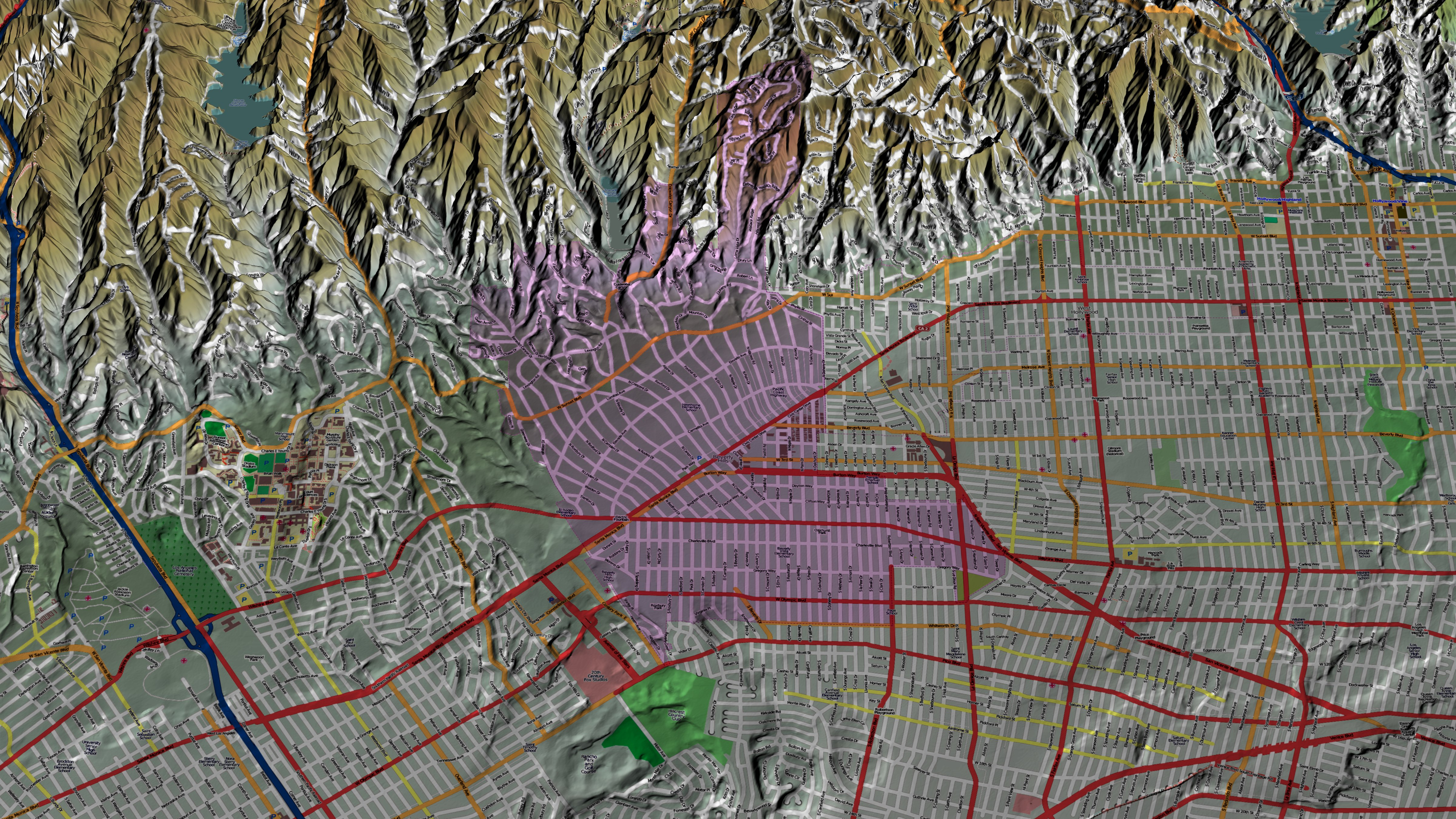 Beverly Hills, California, computer image generated using TruFlite